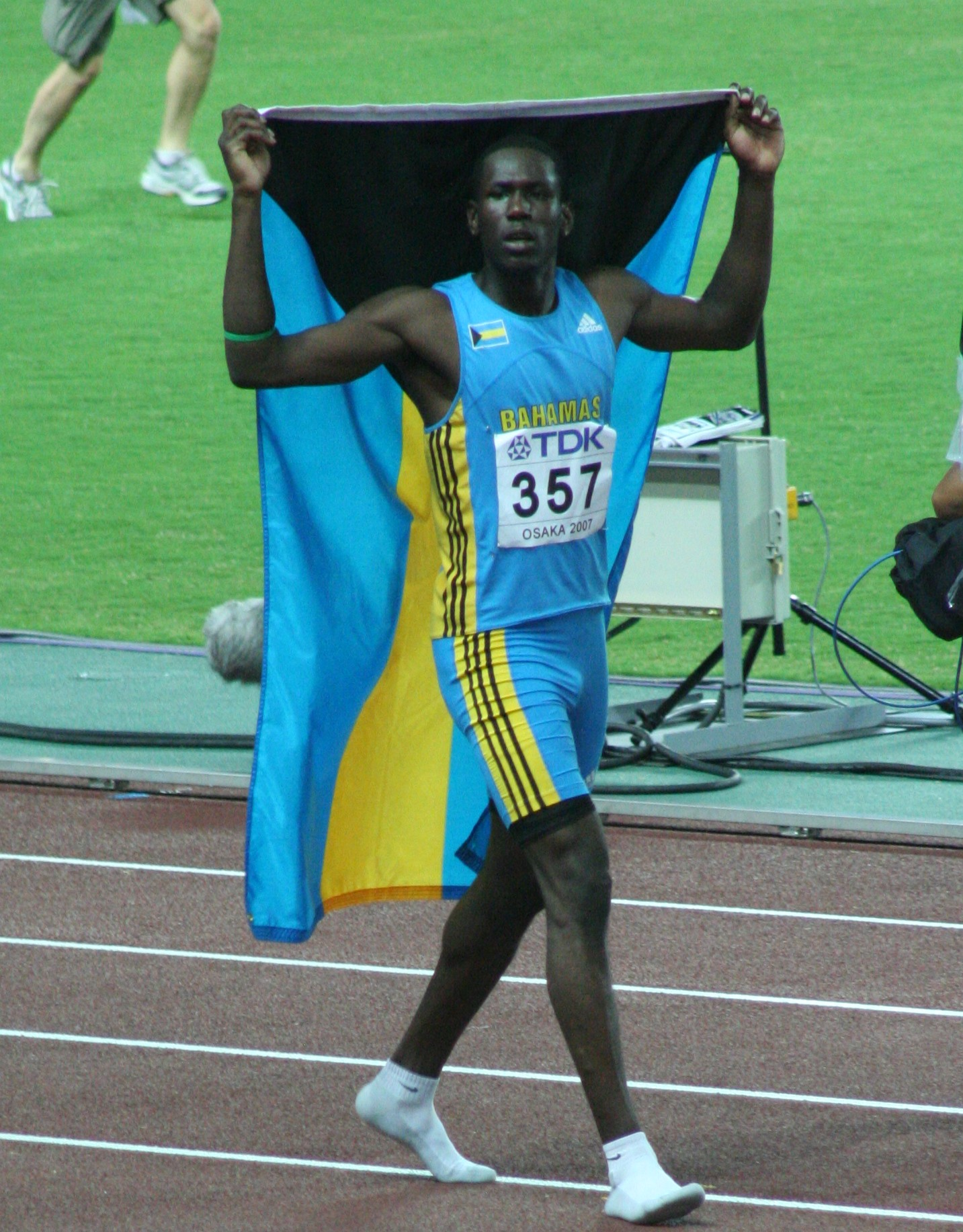 World Athletics Championships 2007 in Osaka - Men's High Jump champion Donald Thomas (Bahamas) celebrating his victory